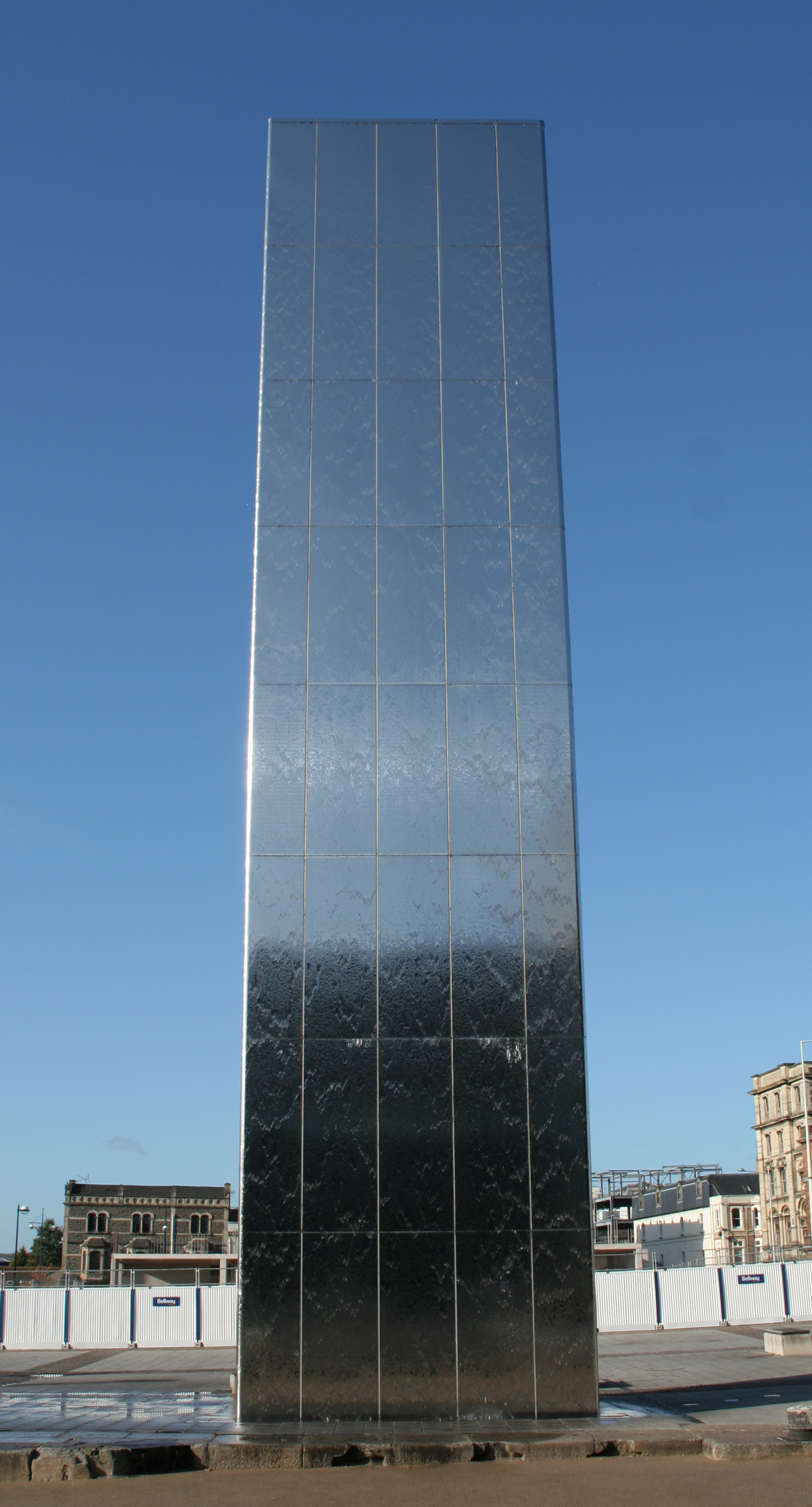 The Water Tower Roald Dahl Plass